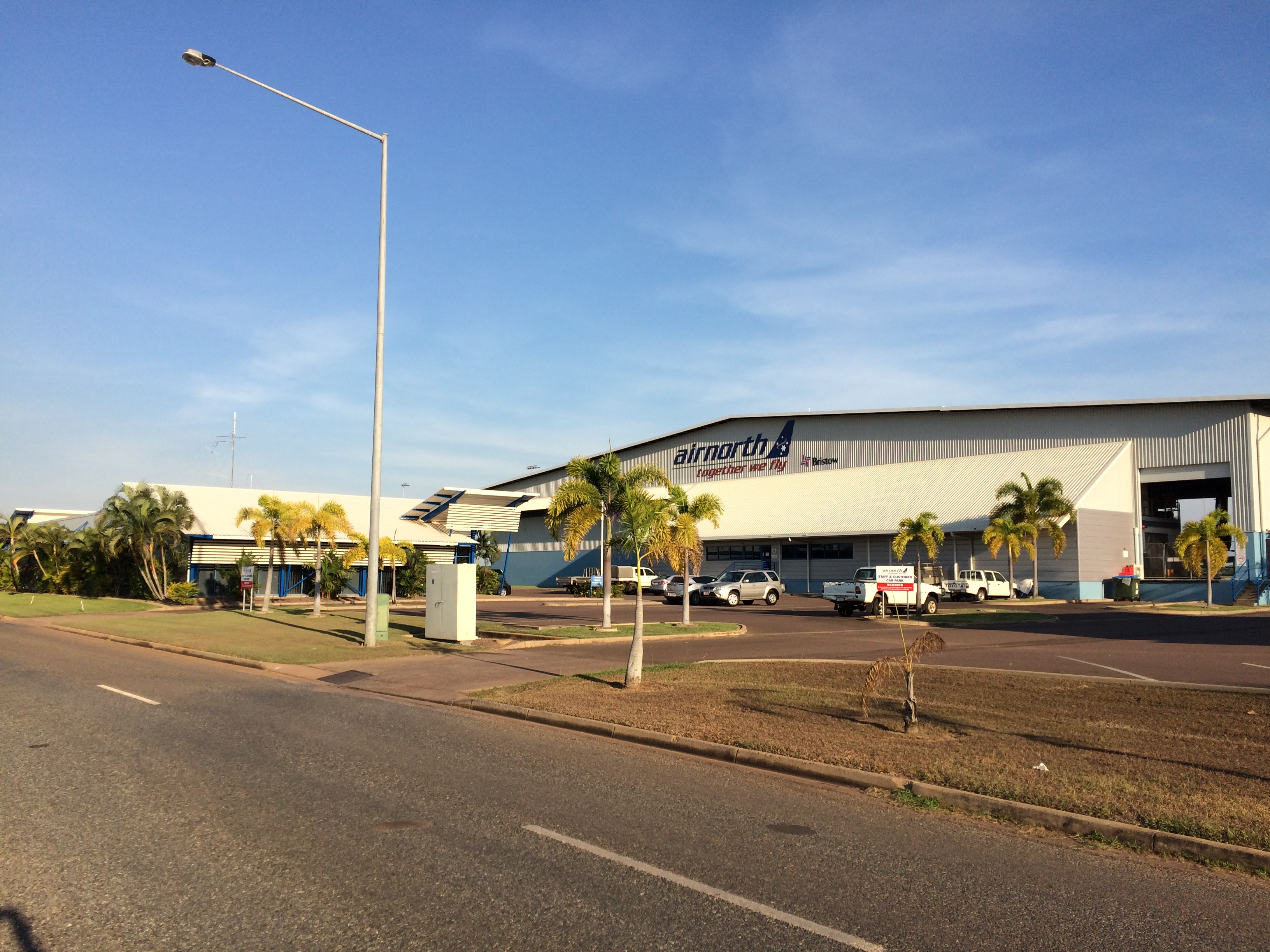 Airnorth offices and maintenance hangar at Darwin Airport.